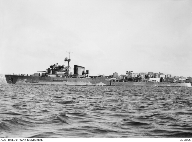 SYDNEY, NSW. C.1942. BOW VIEW OF THE DUTCH FLOTILLA CRUISER TROMP AFTER HAVING DAMAGE SUSTAINED IN THE BADUNG STRAIT ACTION REPAIRED. SHE WEARS A SPLINTER TYPE CAMOUFLAGE SCHEME, APPARENTLY OF TWO SHADES OF GREY, COMMON TO DUTCH SHIPS INVOLVED IN THE DEFENCE OF THE NETHERLANDS EAST INDIES. NOTE THE SEARCHLIGHT POSITION ON THE FOREMAST ABOVE WHICH RADAR HAS BEEN FITTED. AMIDSHIPS, ABOVE HER TORPEDO TUBES, A SMALL RANGEFINDER AND SINGLE AND TWIN AA MACHINE GUNS HAVE BEEN MOUNTED IN THE SPACE ONCE OCCUPIED BY HER FLOATPLANE. THE SAMPSON POSTS ONCE FITTED AT THE BREAK OF THE FORECASTLE HAVE BEEN REPLACED BY 4 INCH AA GUNS. ON THE DECKHOUSE AFT ARE TWIN BOFORS 40 MM AA GUNS. SINGLE 20 MM OERLIKON AA GUNS ARE SITED ON THE CROWNS OF B AND Y TURRETS AND BEHIND THE BRIDGE. (NAVAL HISTORICAL COLLECTION).